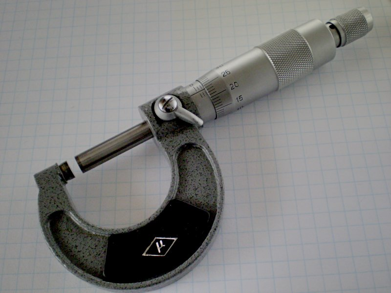 Close-up of a mechanical micrometer.